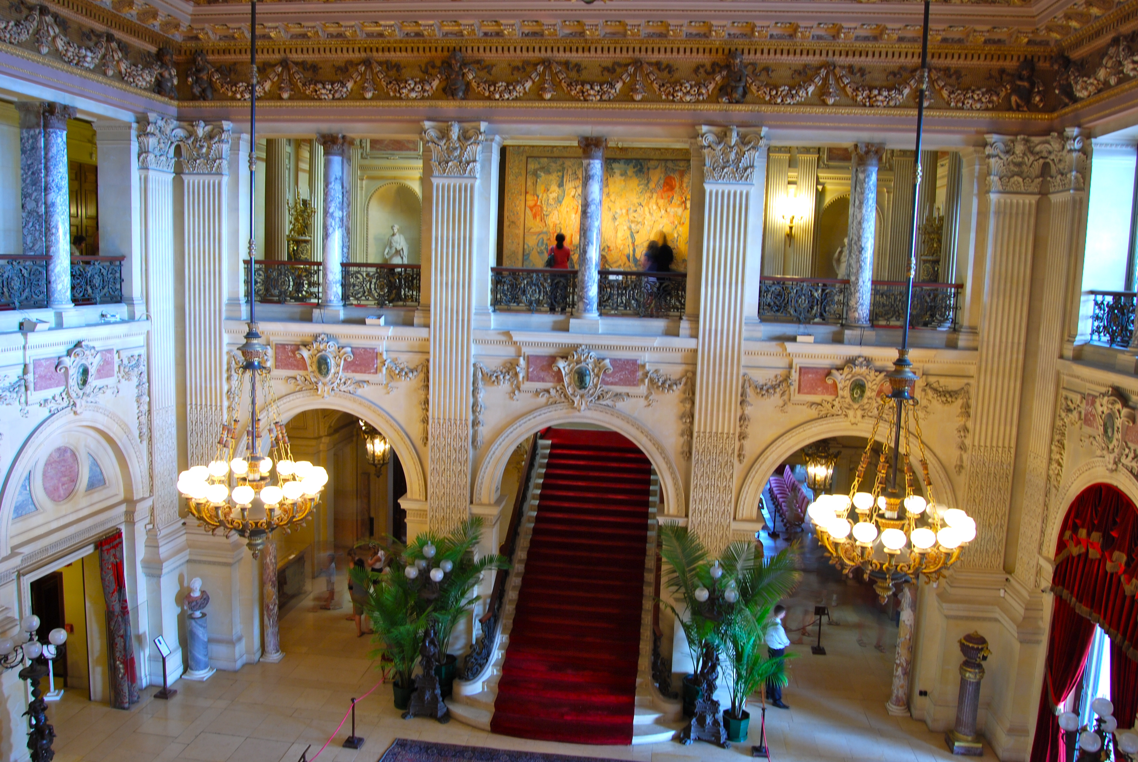 The Great Hall of The Breakers in Newport, Rhode Island, United StatesPhotographer's note: This photograph is not great quality because photography is not allowed while on tour of The Breakers. That said, I made an effort to take an image good enough to give a viewer a good idea of the room. Thanks for understanding.